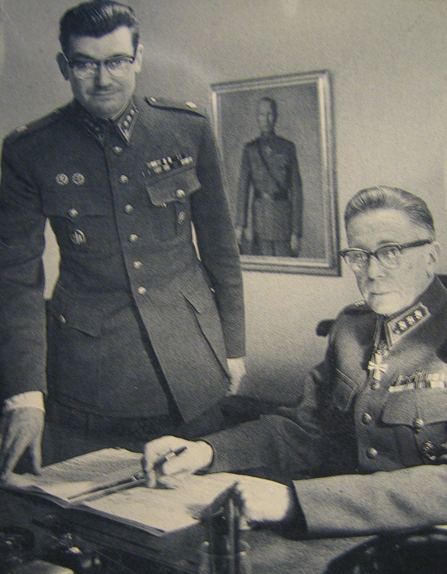 Captain, later Chief-of-Defence, Jaakko Valtanen presenting a matter to Chief-of-Defence, General Sakari Simelius